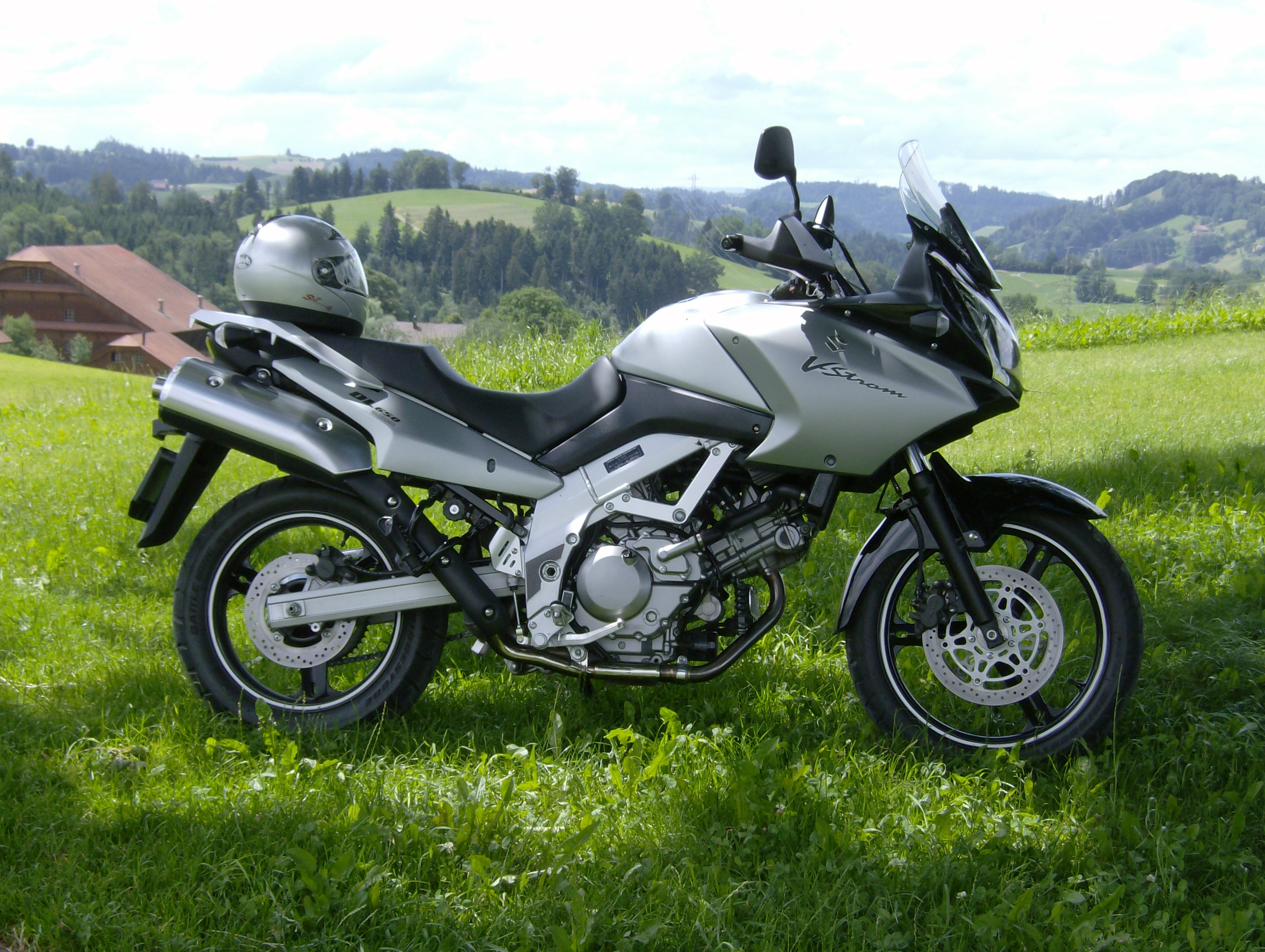 A 2004 Suzuki DL650 V-Strom (Type K04) somewhere in Germany.